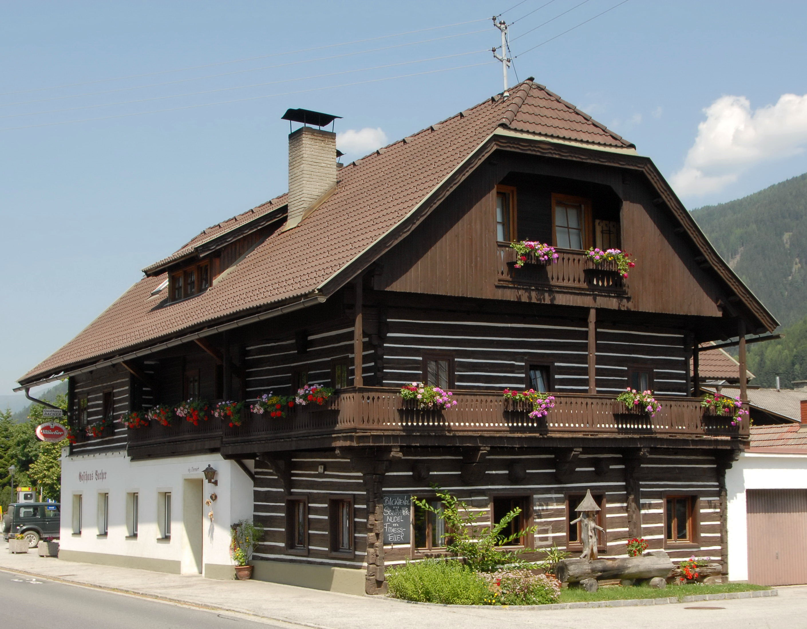 Residential building and restaurant in traditional log cabin construction in Gnesau, municipality Gnesau, district Feldkirchen, Carinthia / Austria / EU